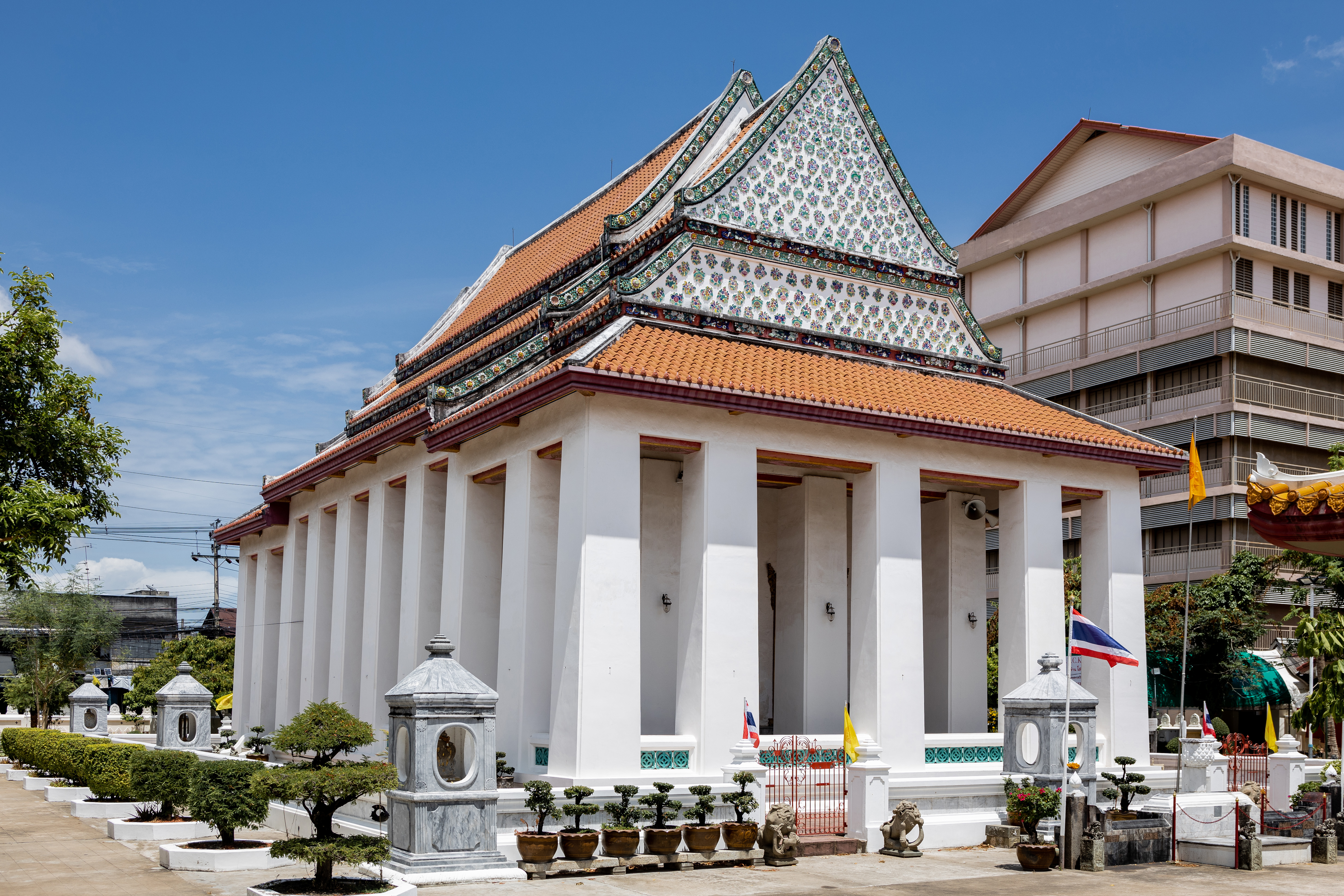 Ubosot of Wat Nang Nong Worawihan, Bangkok.